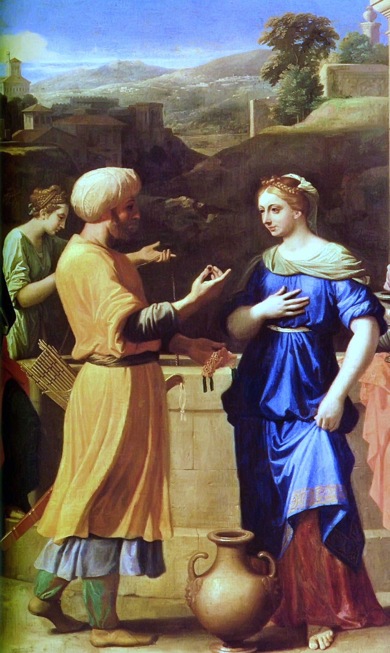 Eliezer and Rebecca at the well